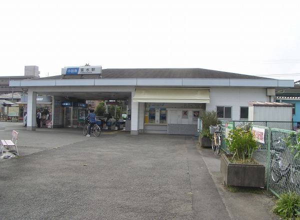 Tomizu Station east exit, on the Odakyu Odawara Line, Odawara, Kanagawa 富水駅